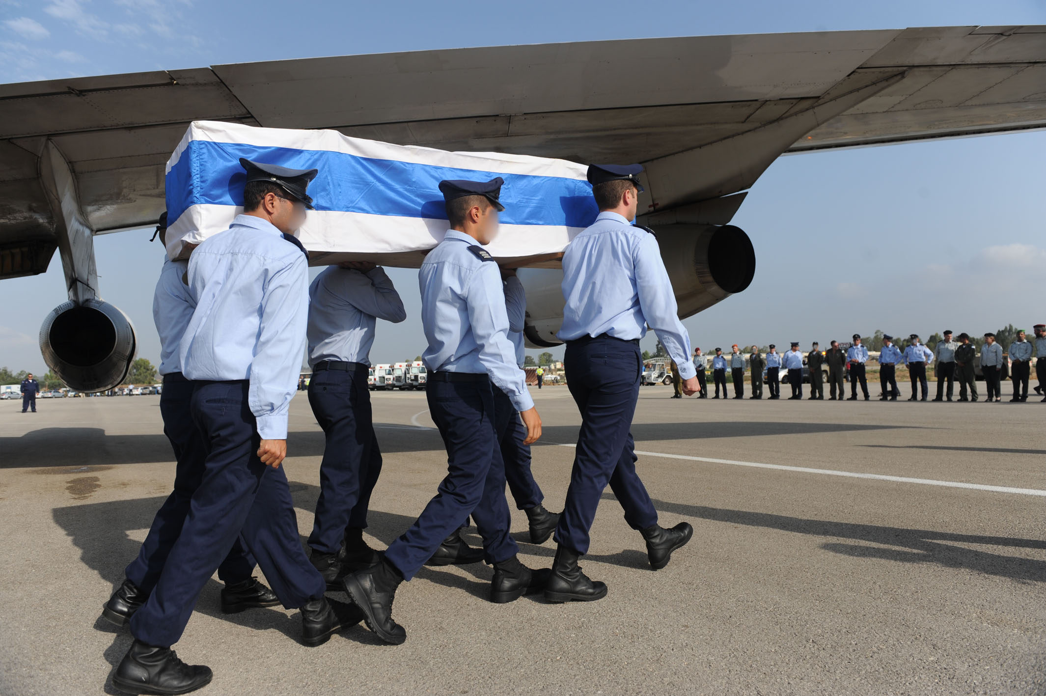 July 30, 2010. A memorial ceremony for the fallen soldiers of the Yasur helicopter crash was held in Tel Nof Air Force Base, upon the victims' return to Israel. For more information: dover.idf.il/IDF/English/News/today/10/07/3001.htm The Israel Defense Forces Facebook • blog • Twitter